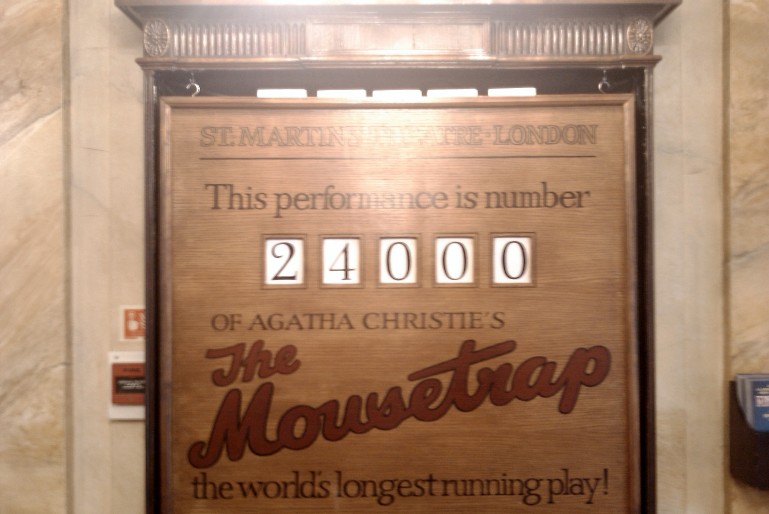 The Mousetrap 24,000 show